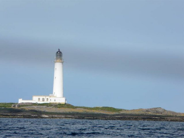 One Hole Golf Hyskeir is a flat island. The Lighthouse keepers (now automatic) had a famous one hole golf course here)